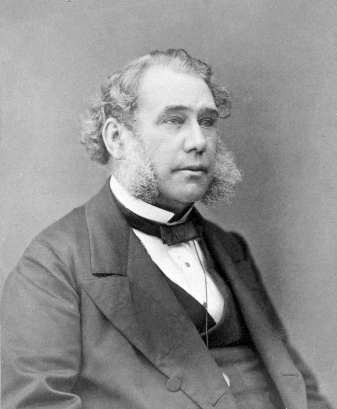 John Hilton, British surgeon